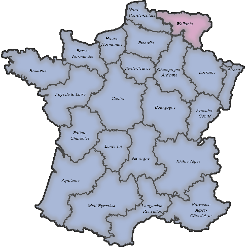 Regions of France in case of Rattachism